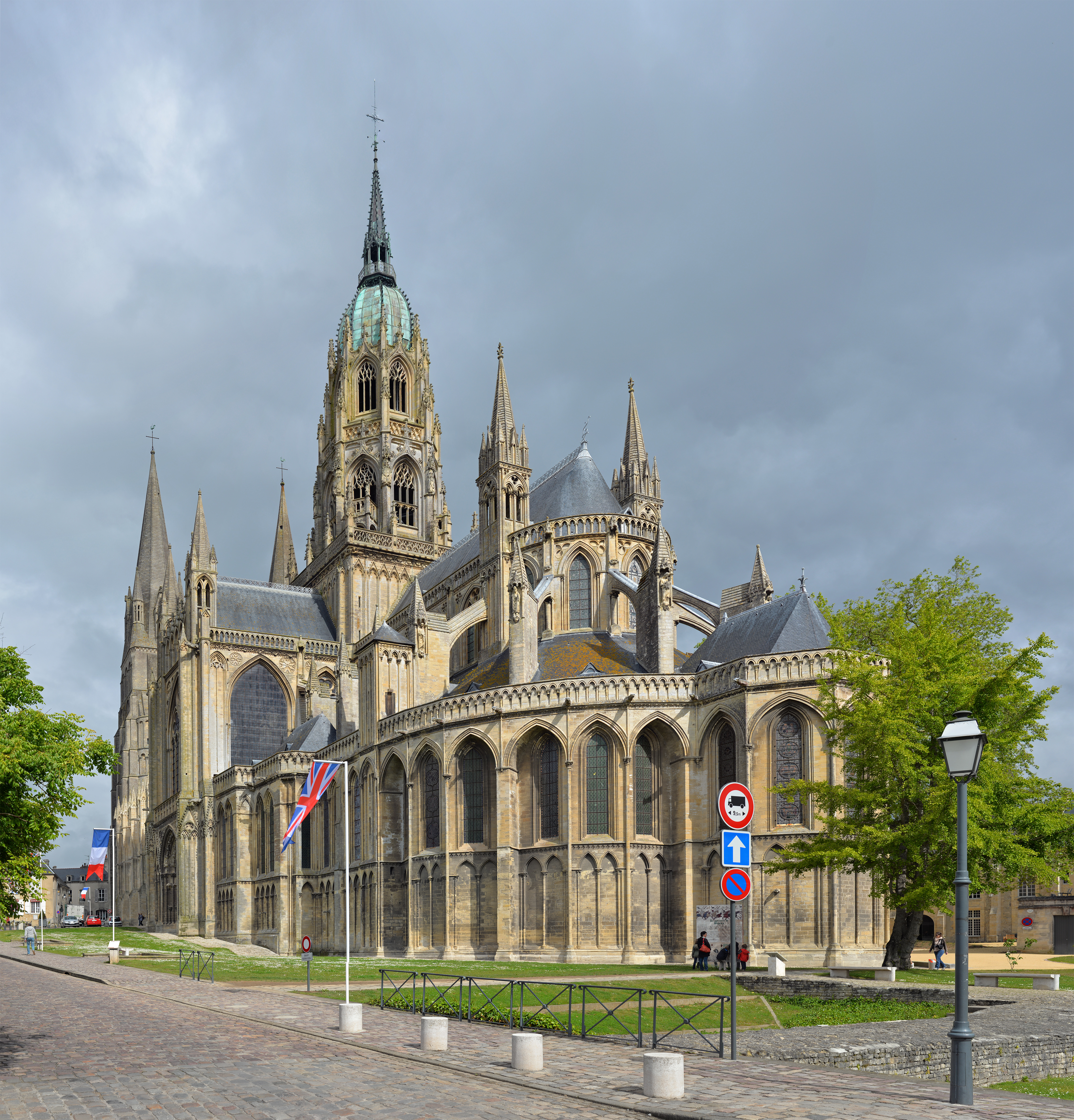 Bayeux Cathedral, Normandy, France, 2014.